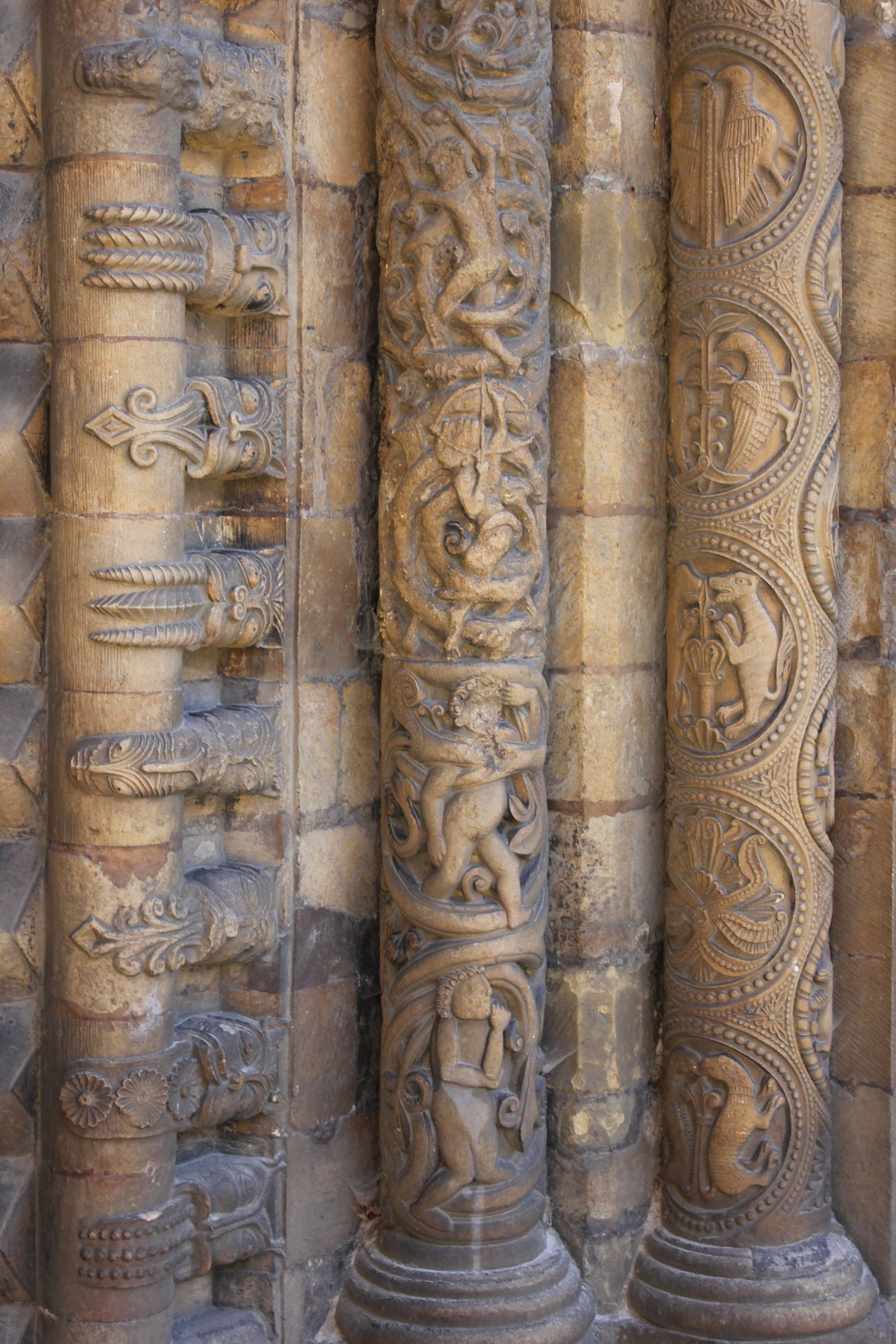 Detail of some of the Romanesque engaged columns flanking the west door of Lincoln Cathedral